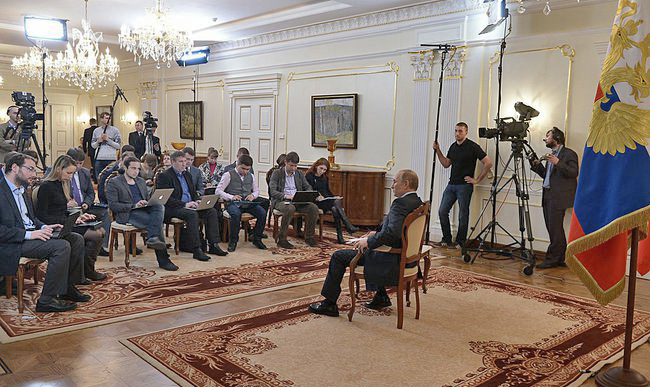 Vladimir Putin answered journalists’ questions on the situation in Ukraine (2014-03-04).